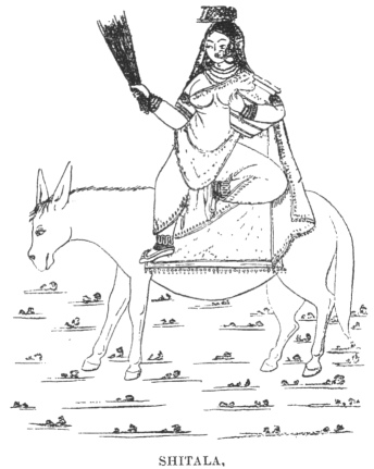 Shitala, used in the book Hindu Mythology, Vedic and Puranic, by W.J. Wilkins